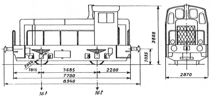 Drawing of SNCF Y 7100 switcher